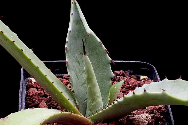 Agave durangensis